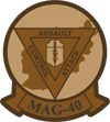 Logo for MAG-40. US Marine Unit that is headed to Afghanistan in 2009. It will be part of the 2nd Marine Expeditionary Brigade.